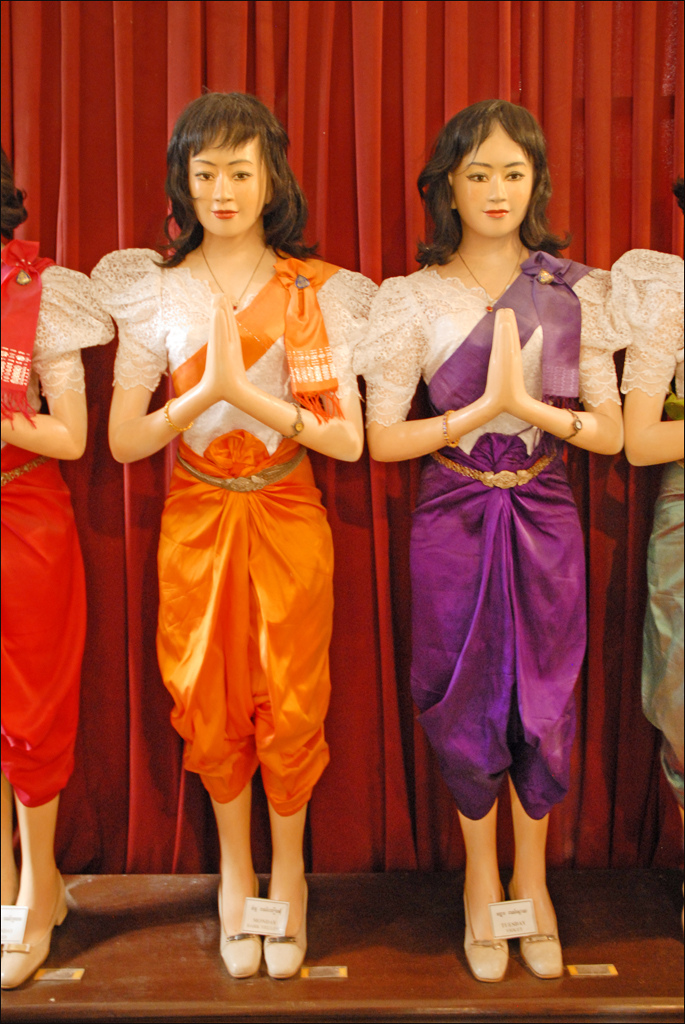 Traditional costumes of the Queen in the small Royal Palace museum in Phnom Penh, Cambodia. A different colour was attributed to each day of the week: orange was the colour for Monday, violet for Tuesday, etc.